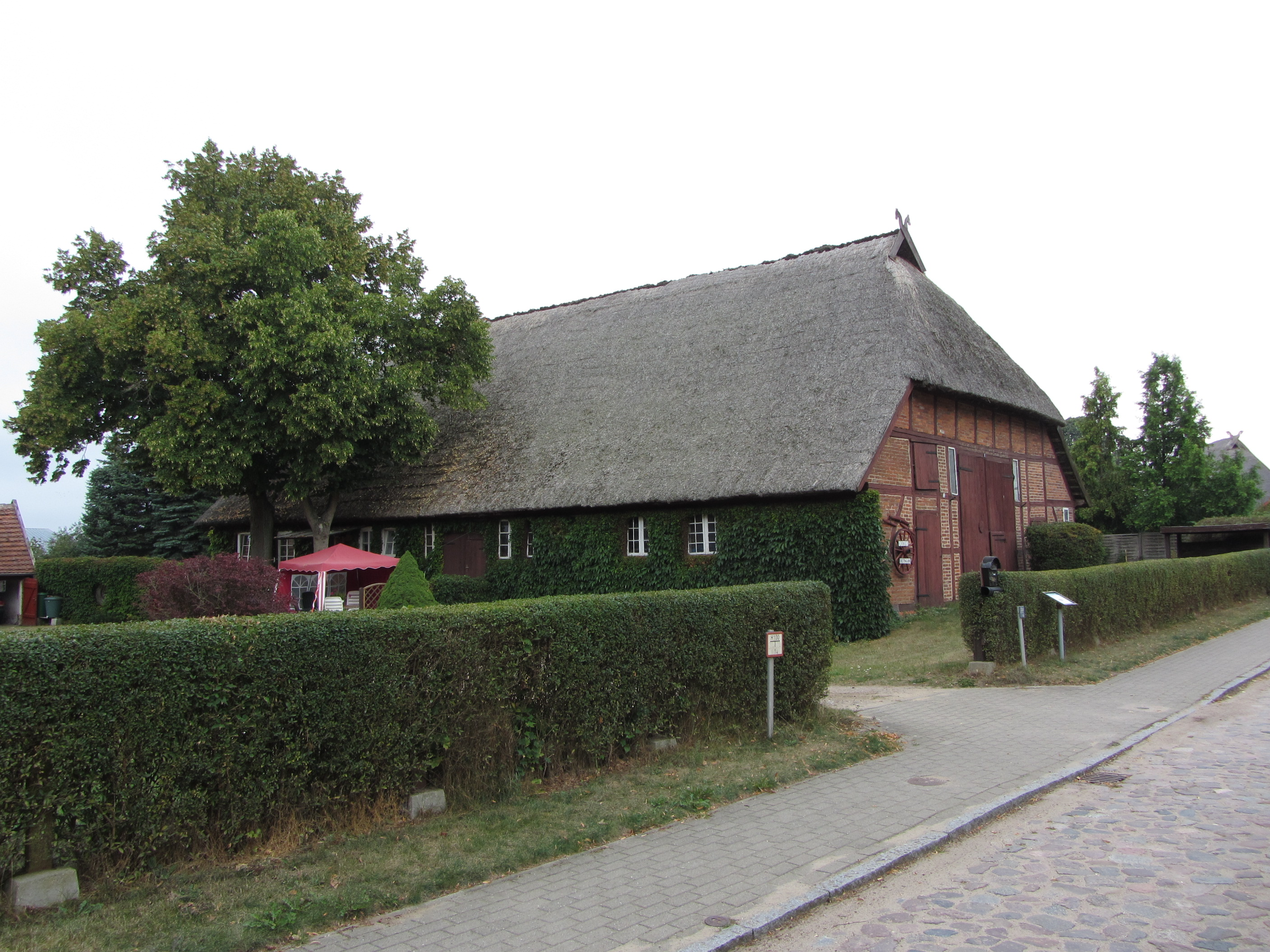 Cultural heritage monument (Low German house) in the Güstrower Straße 1 in Dobbertin, district Ludwigslust-Parchim, Mecklenburg-Vorpommern, Germany